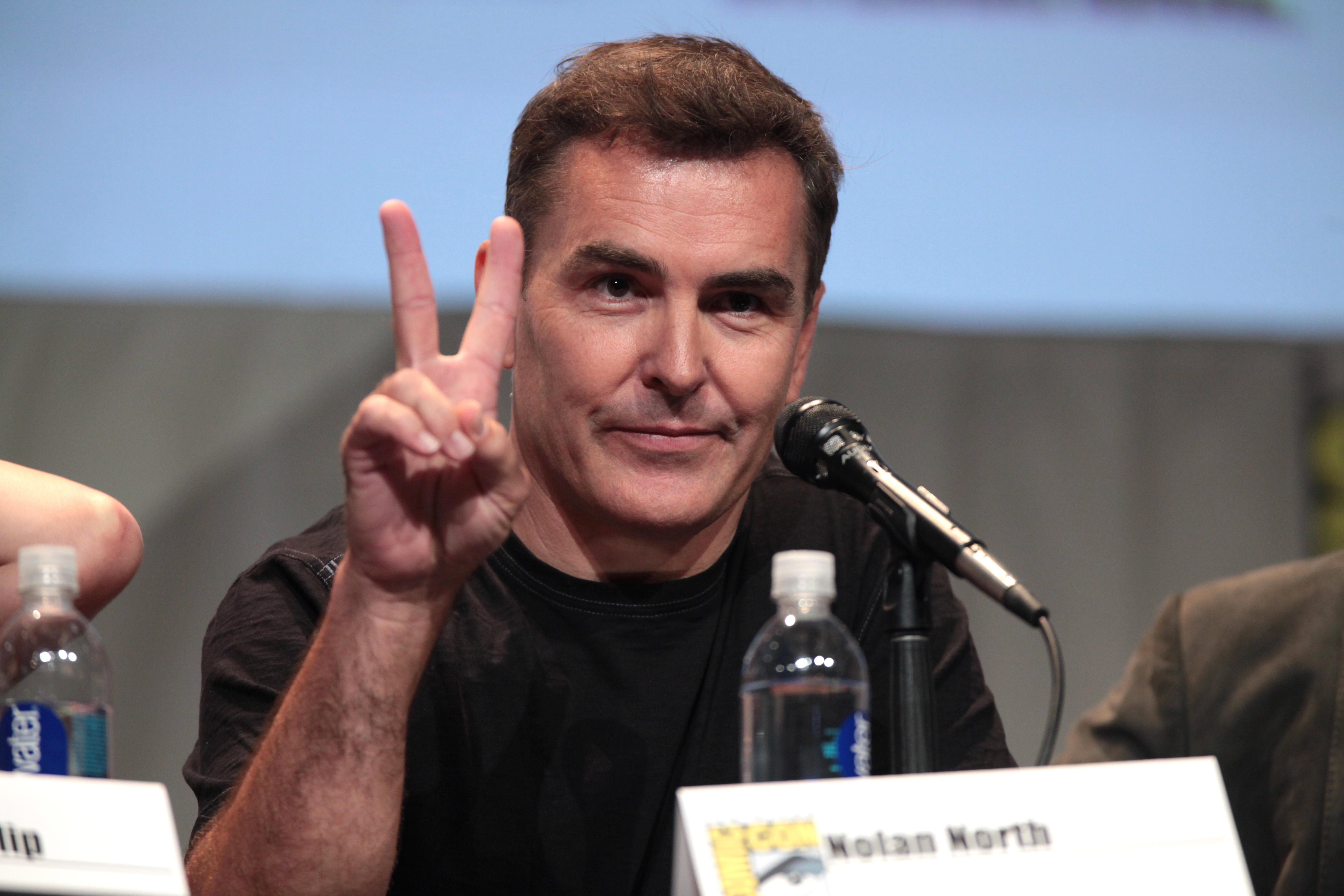 Nolan North speaking at the 2015 San Diego Comic Con International, for "Con Man", at the San Diego Convention Center in San Diego, California.